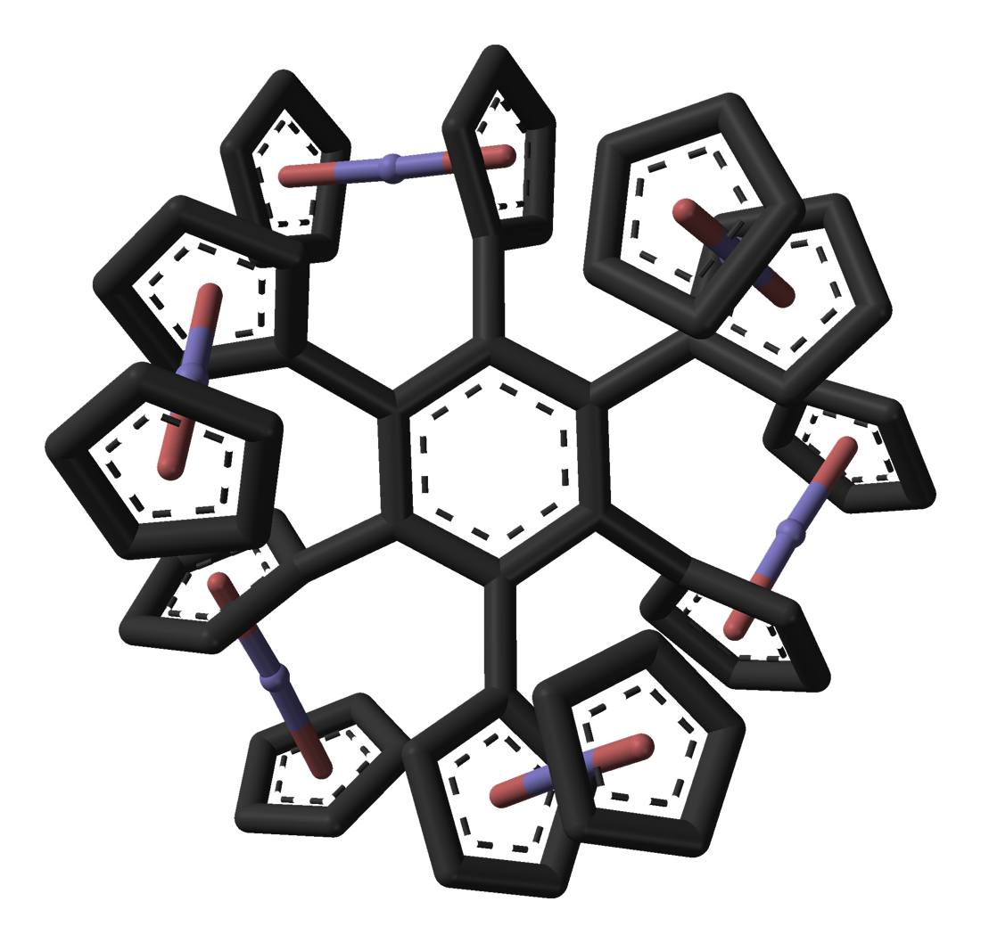 Stick model of the hexaferrocenylbenzene molecule, based on the x-ray crystallographic data from Yong Yu, Andrew D. Bond, Philip W. Leonard, Ulrich J. Lorenz, Tatiana V. Timofeeva, K. Peter C. Vollhardt, Glenn D. Whitener and Andrey A. Yakovenko (2006). "Hexaferrocenylbenzene". Chemical Communications: 2572 - 2574.